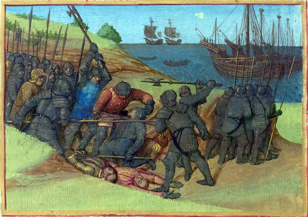 Battle between the Francs and the Danes in 515. Grand Chronicles of France, illuminated by Jean Fouquet, Tours, circa 1455-1460. The army of Théoderic, led by his son Théodebert, stops the Danish invaders and sends them fleeing. On the horizon, two ships have already put to sea.